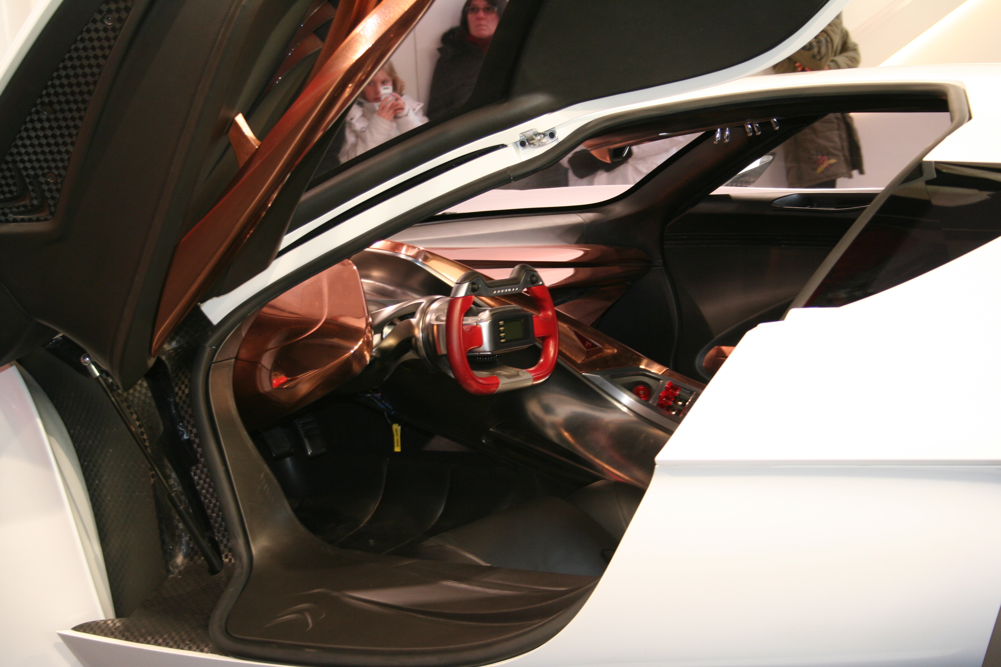 Picture of the interior of the Citroen GTbyCitroën at the Citroen showroom at the Avenue des Champs-Élysées, Paris